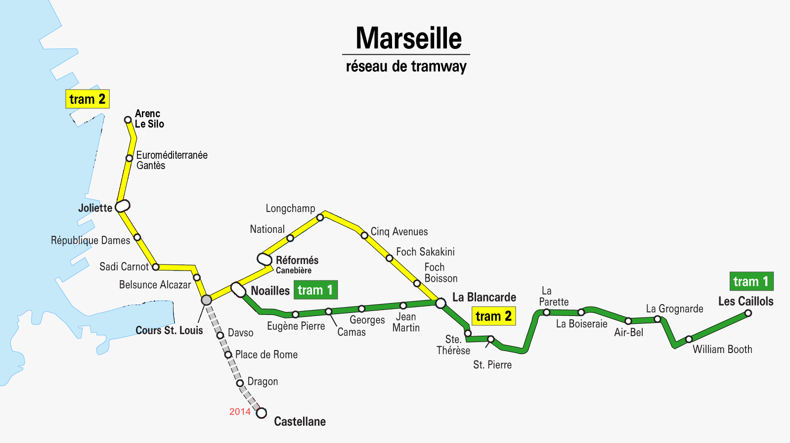 Map: Marseille streetcar network